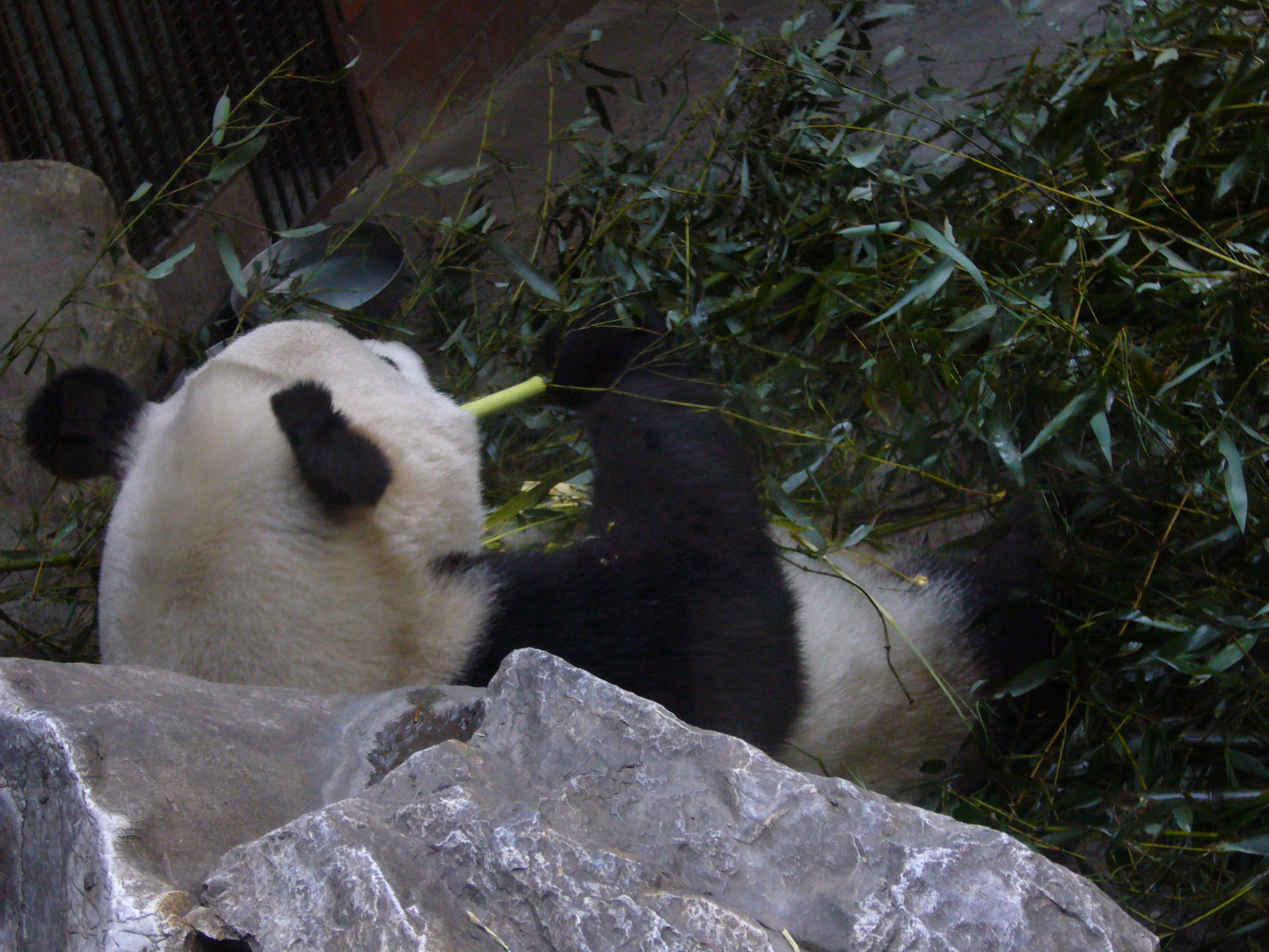 Giant Panda in Beijing Zoo